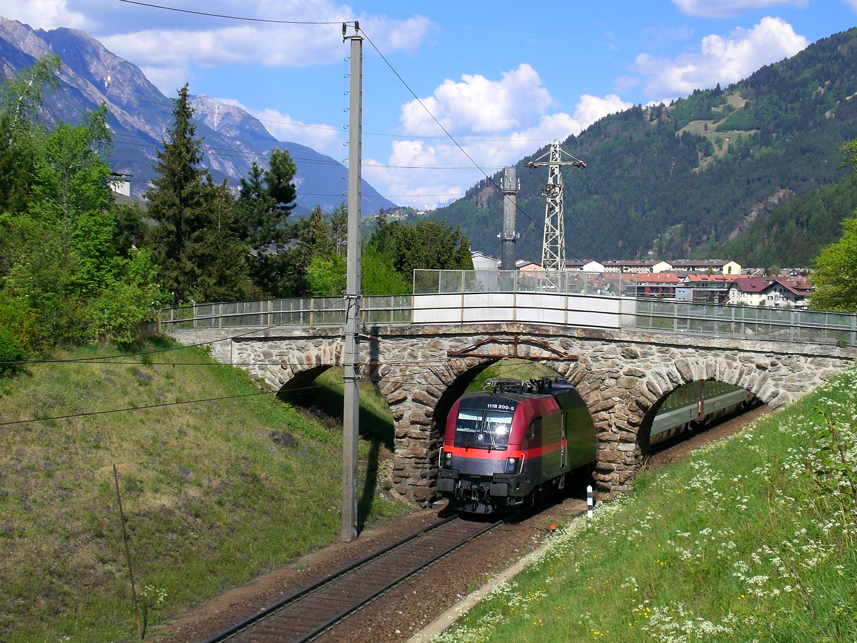 ÖBB 1116 200-5 (railjet special-varnish) with ÖBB EC 162 Transalpin to Basel SBB underpassing the Burschl bridge in Landeck, Austria